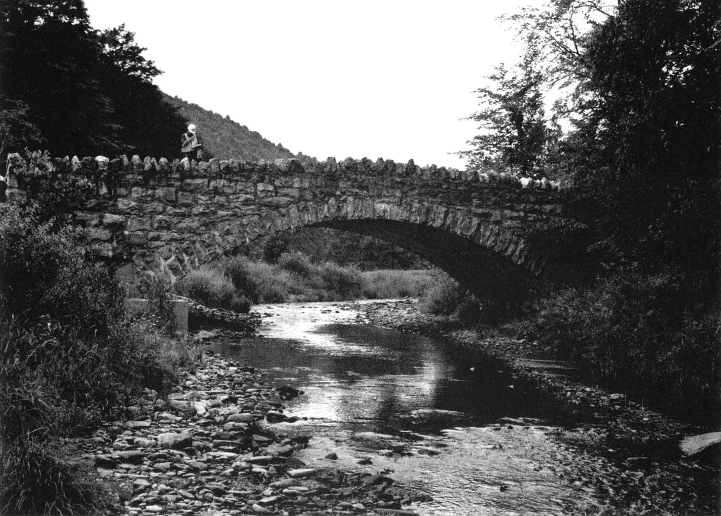 Picture of the bridge looking north during summer with a person on the bridge